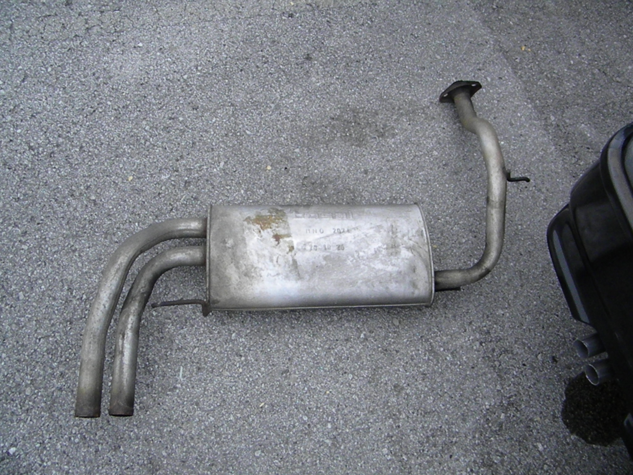 Bosal Muffler for Honda CRX